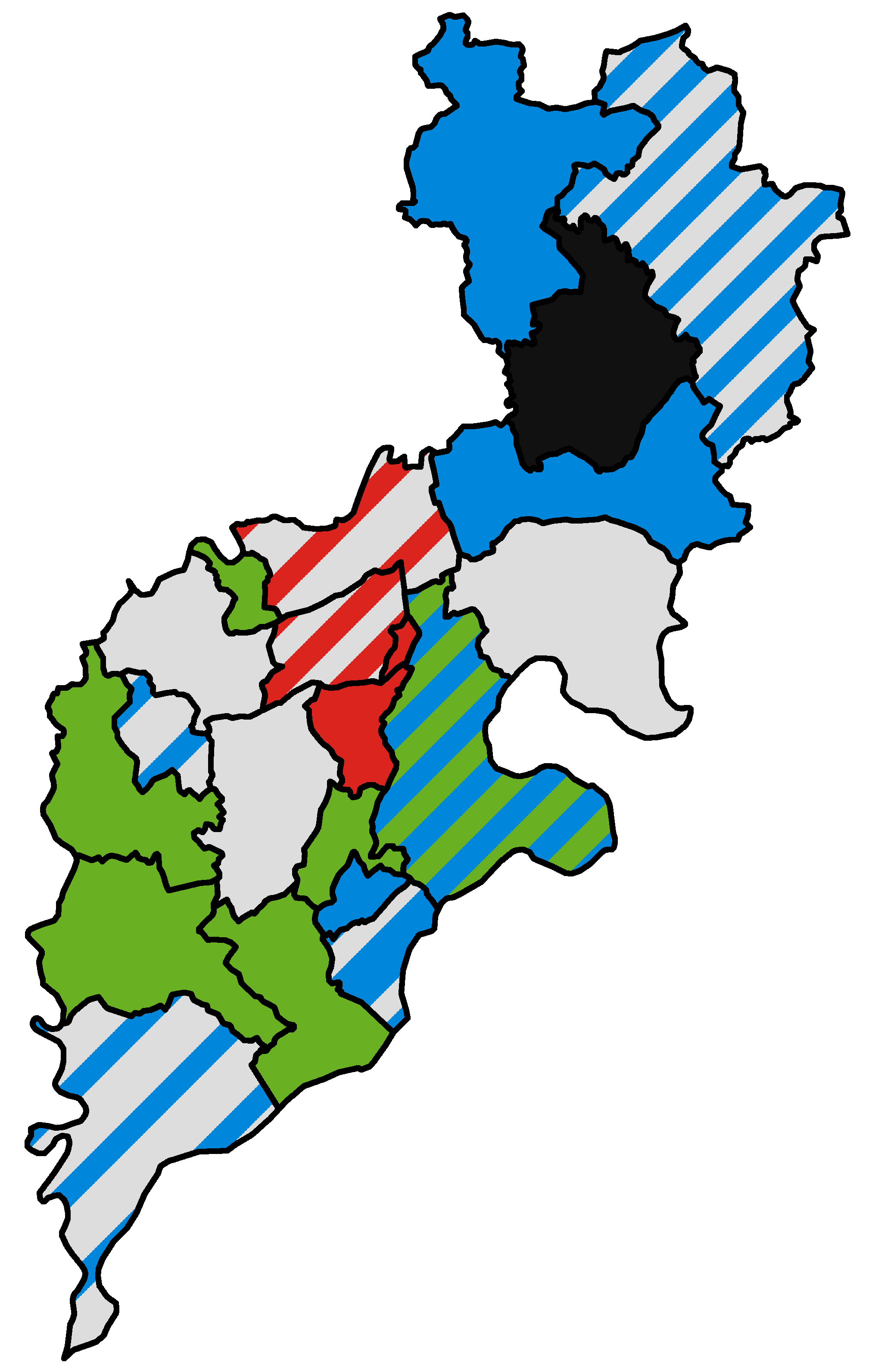 Results of the 2019 local elections in the Forest of Dean Colours: Independent Conservative Green Labour Election postponed